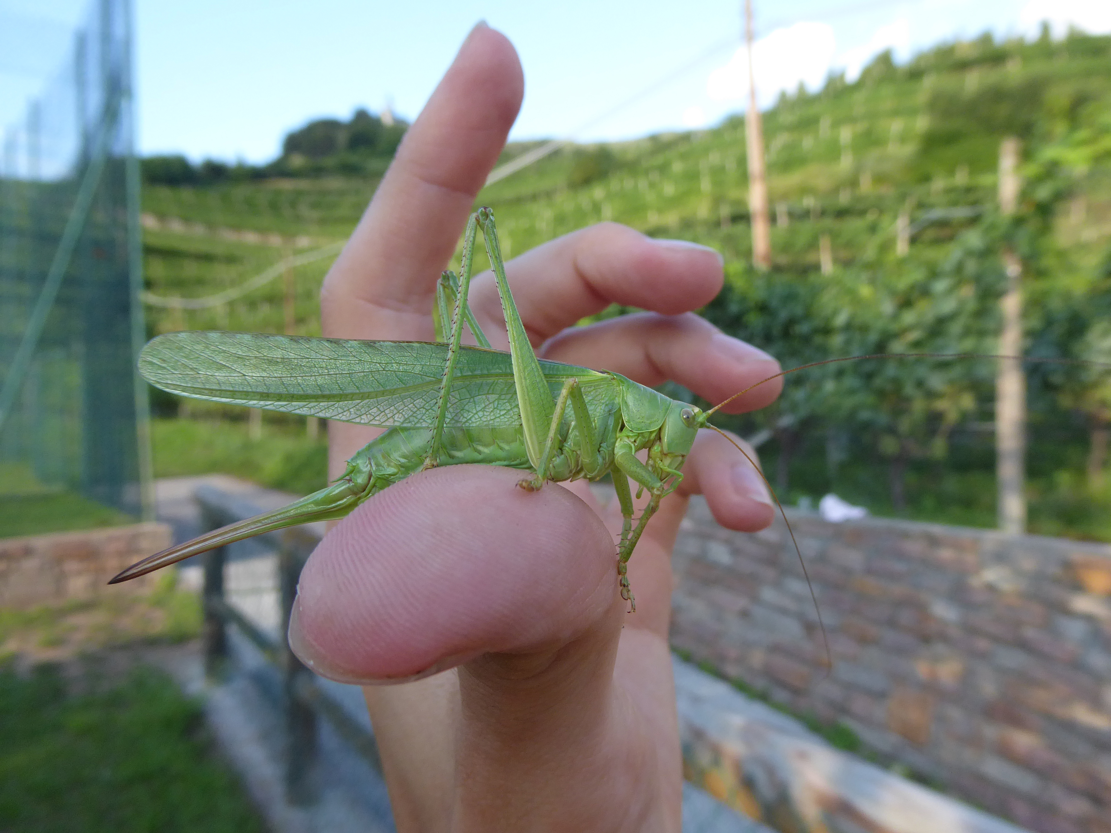 Female Tettigonia viridissima photographed in Piazzo (Segonzano, Trentino, Italy)